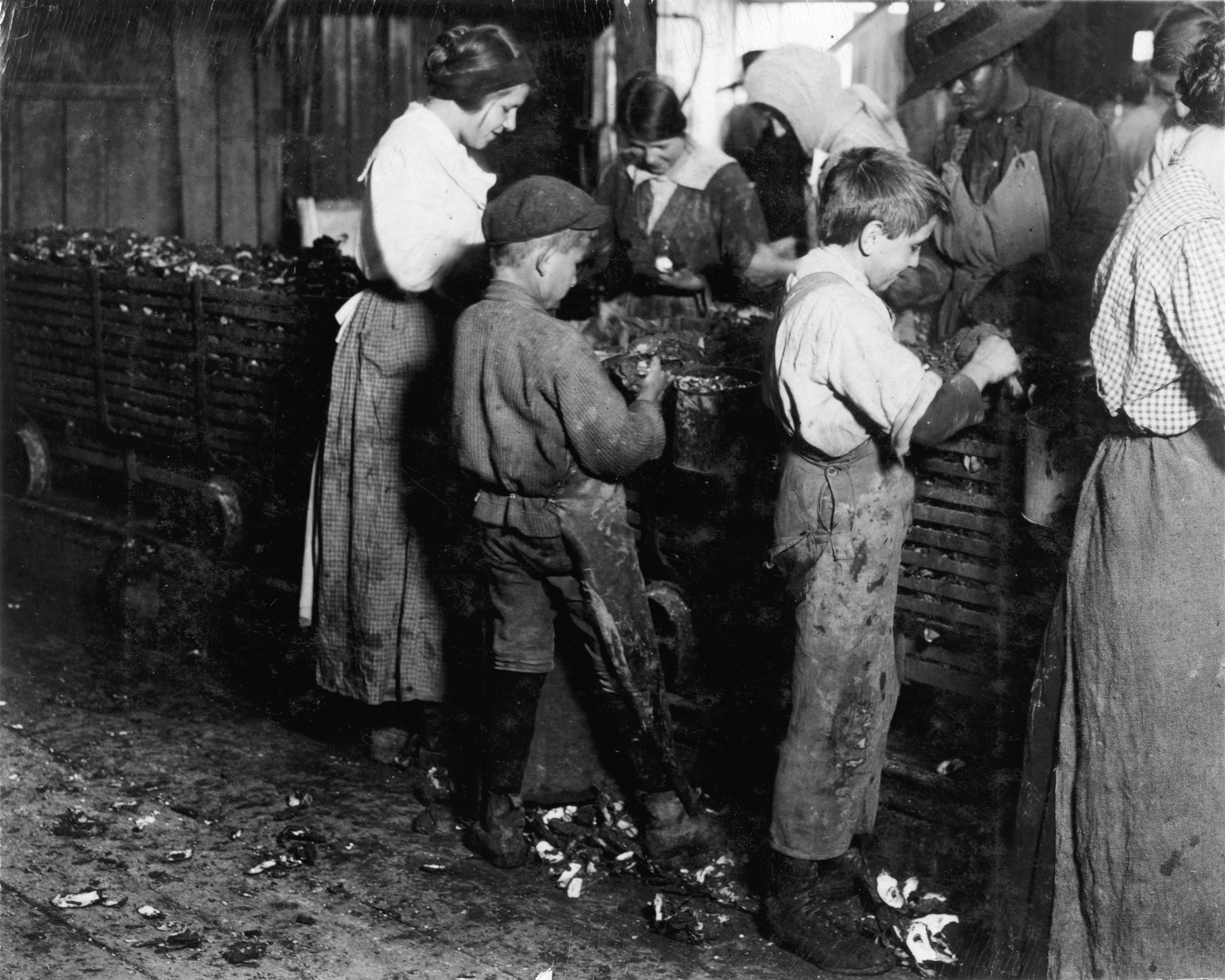 10 year old Jimmie. Been shucking 3 years. 6 pots a day, and a 11 year old boy who shucks 7 pots. Also several members of an interesting family named Sherrica. Seven of them are in this factory. The father, mother, four girls shuck and pack. Older brother steams. 10 year old boy goes to school. Been in the oyster business 5 years. Father worked for 25 years in the Pennsylvania Coal Mine, and the oldest brother there[?] They said they liked the oysters business better because the family makes more. Varn & Platt Canning Co. Location: Bluffton, South Carolina.